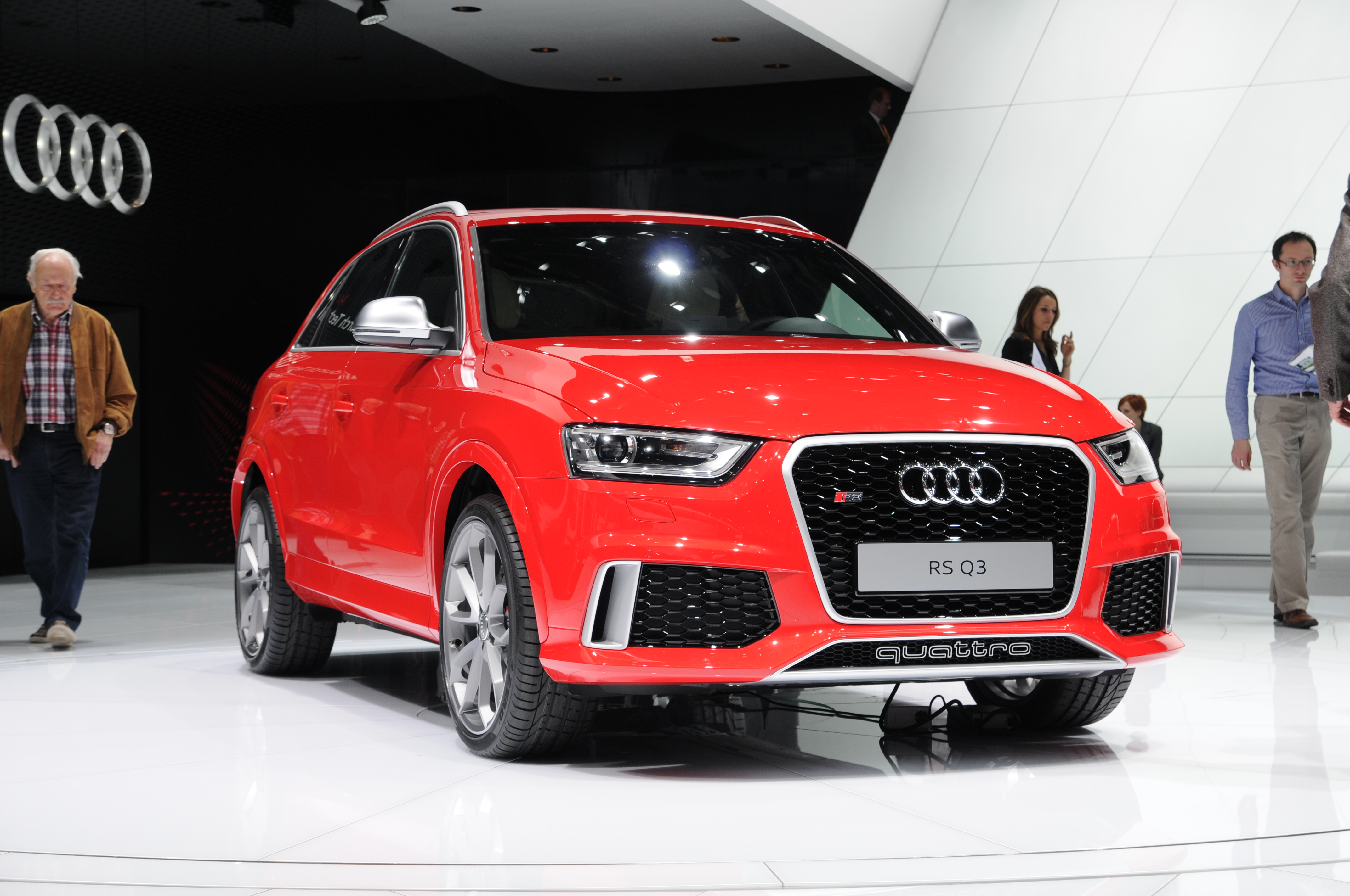 Geneva Motor Show 2013 (photos taken on the first press day)